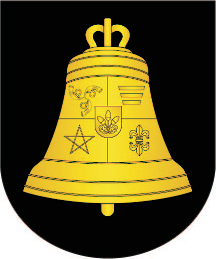 Coat of arms of Moładava